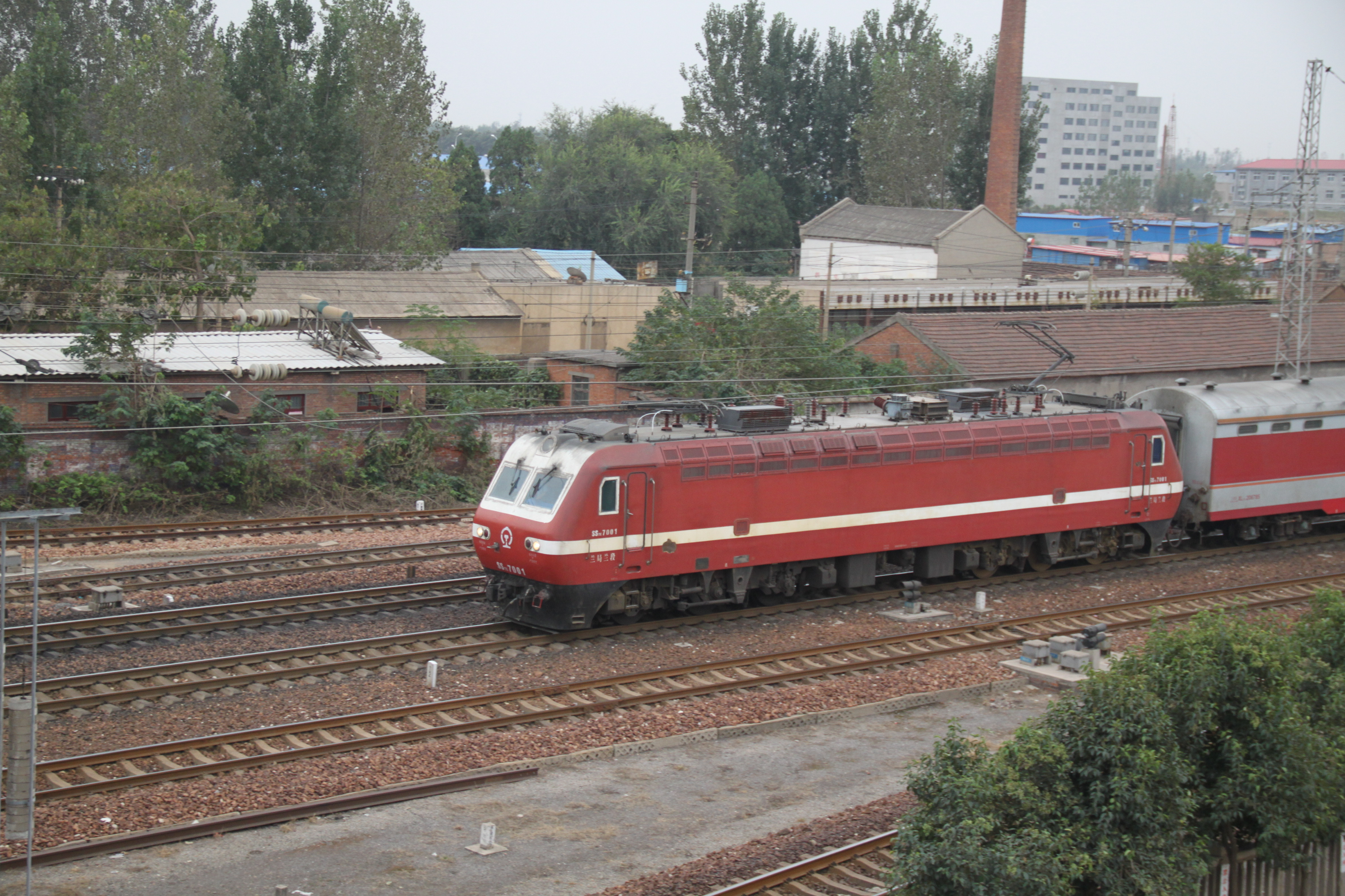 Xinzheng, Henan, China. Complete indexed photo collection at .